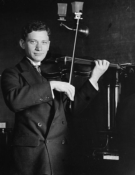 Russian-born American composer, conductor and violinist Efrem Zimbalist (1890-1985)